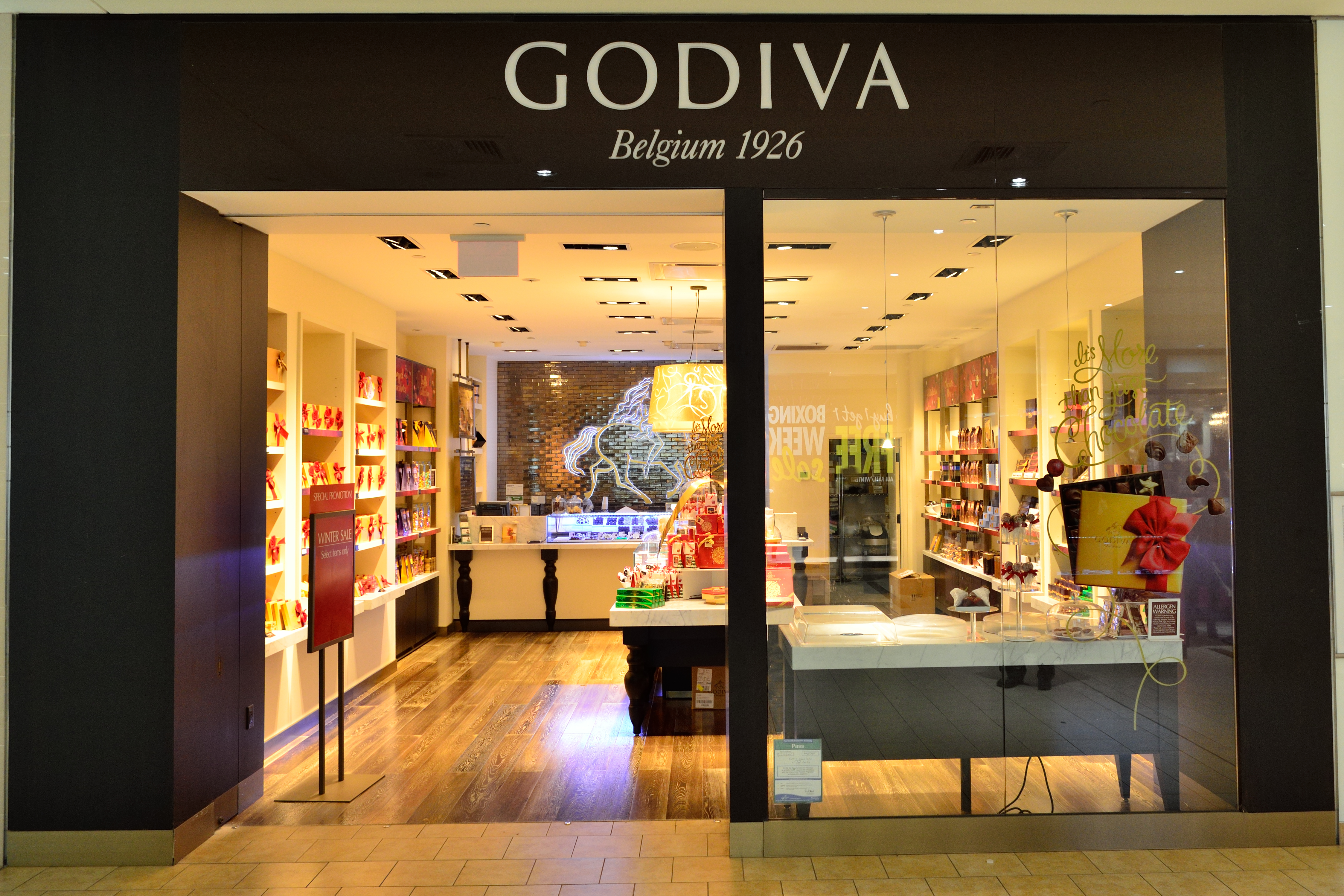 Godiva in Bramalea City Centre